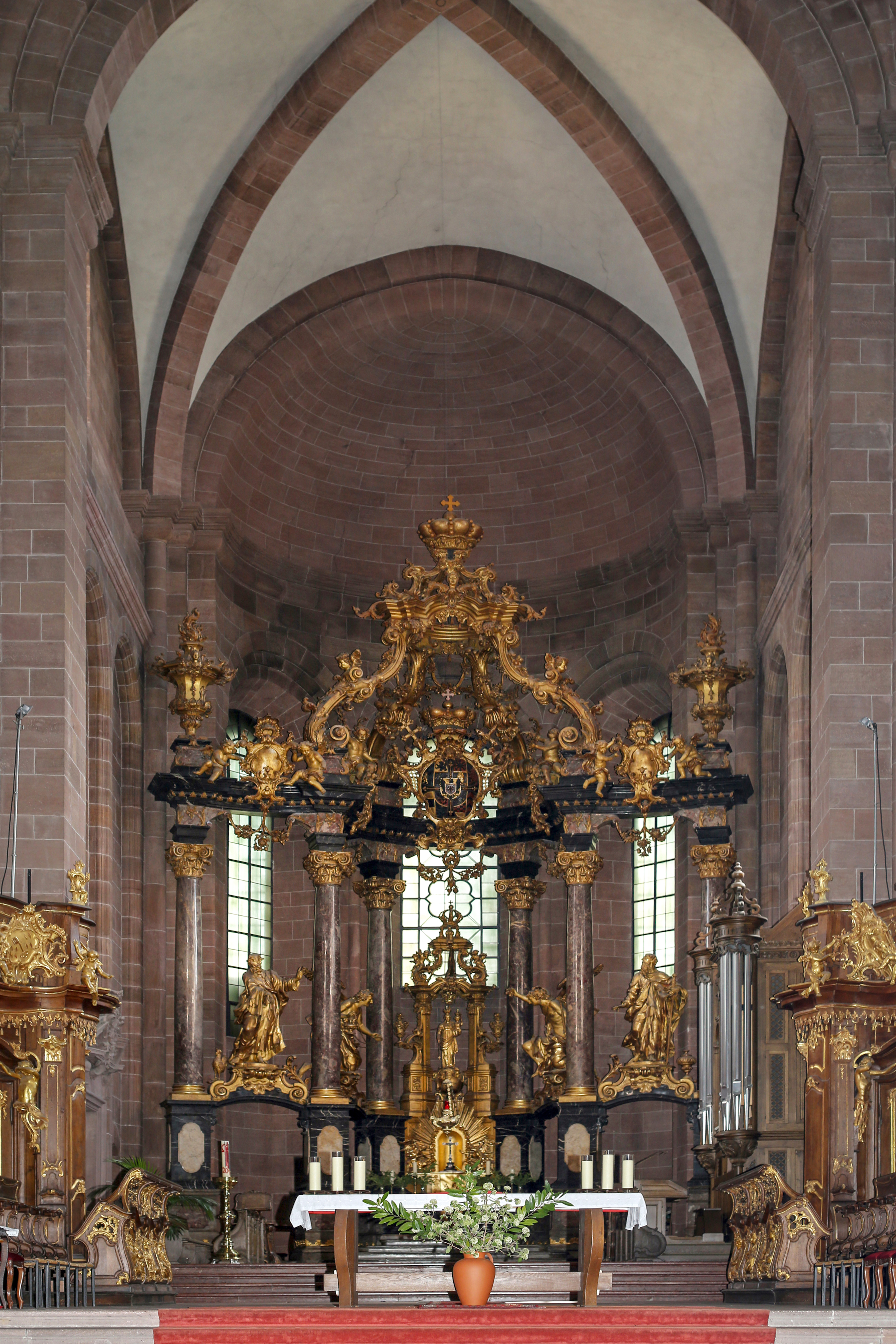 High altar of Saint Peter's Cathedral Worms, Germany